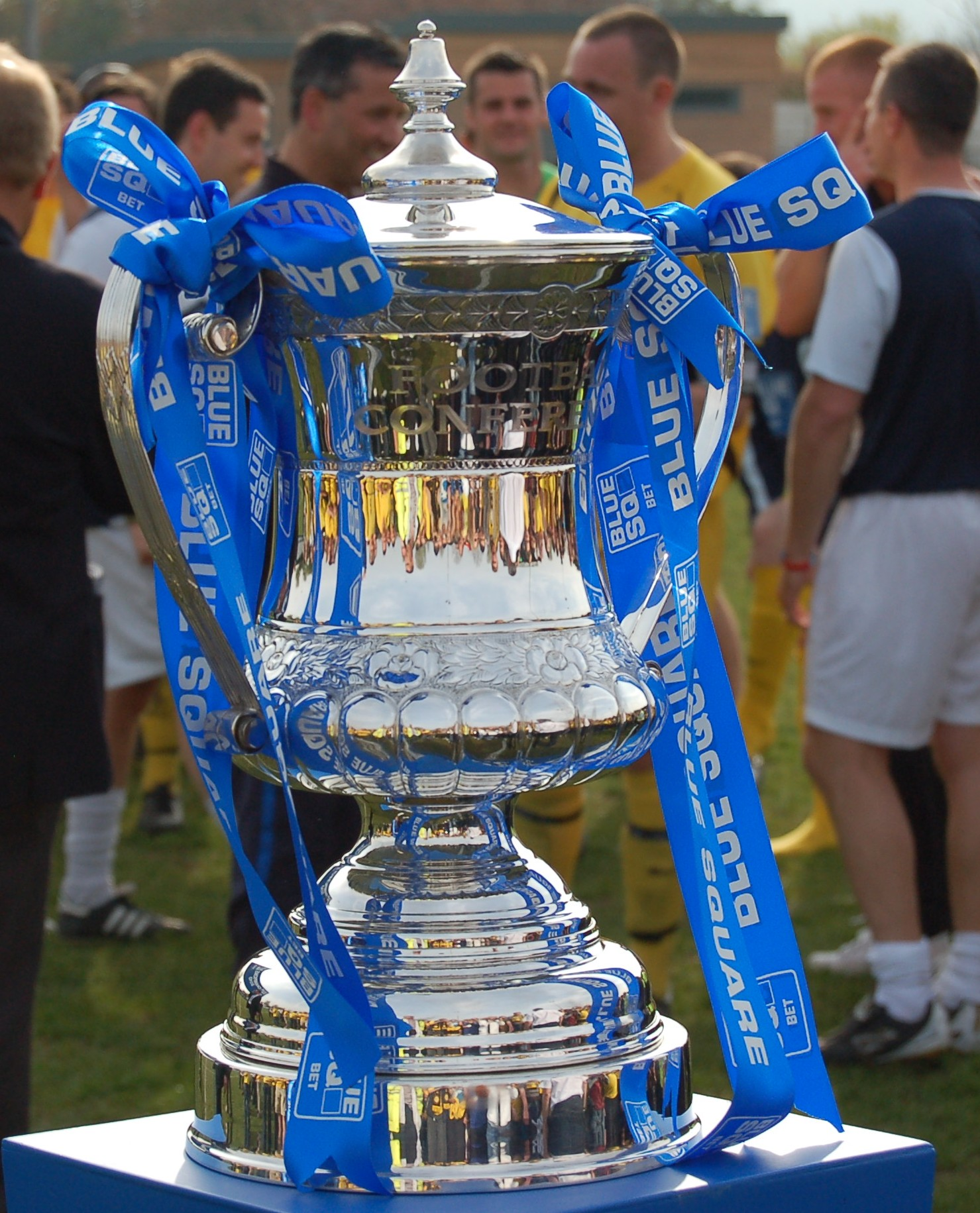 Blue Square North champions trophy